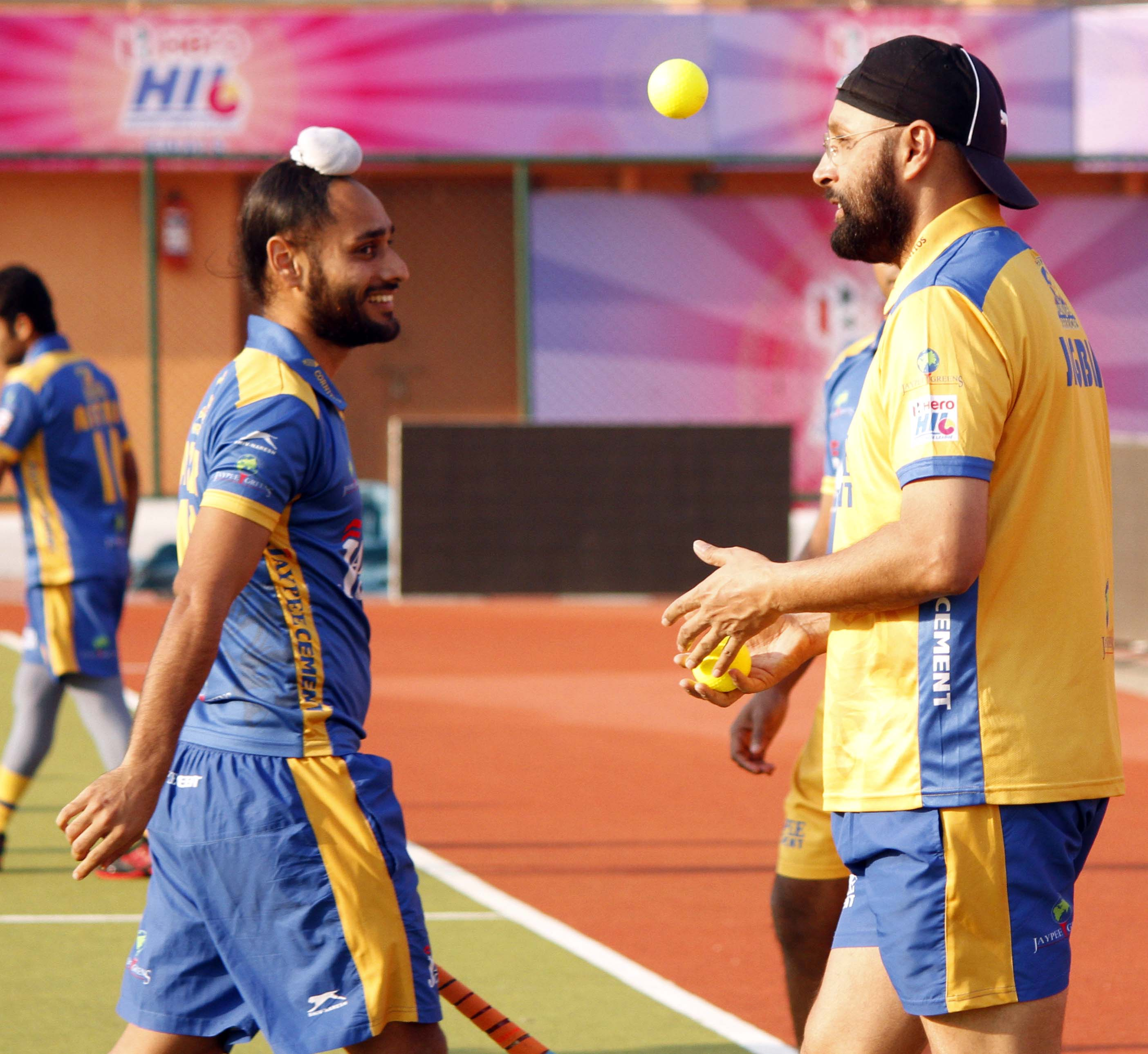 Jagbir Singh during HIL 2014 training time with satbir